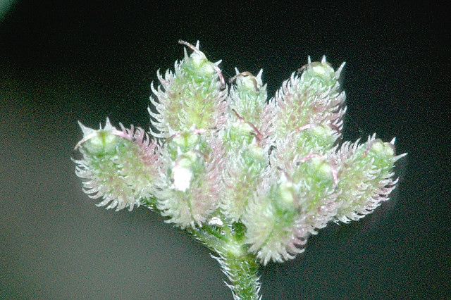 Torilis japonica from Commanster, Belgian High Ardennes .